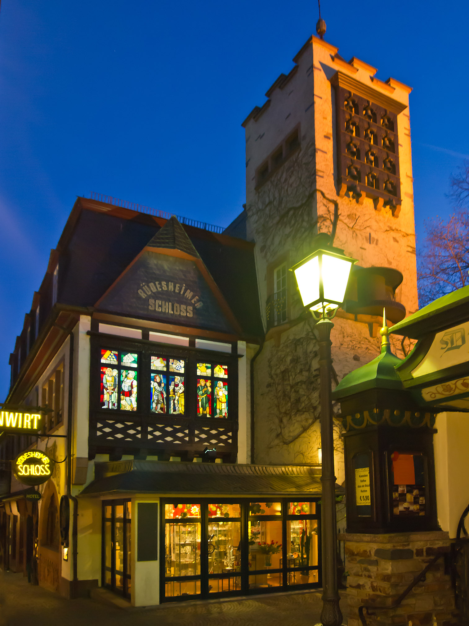 Drosselgasse, Rüdesheim am Rhein (Germany), with wine restaurant and Hotel "Breuer's Rüdesheimer Schloss"